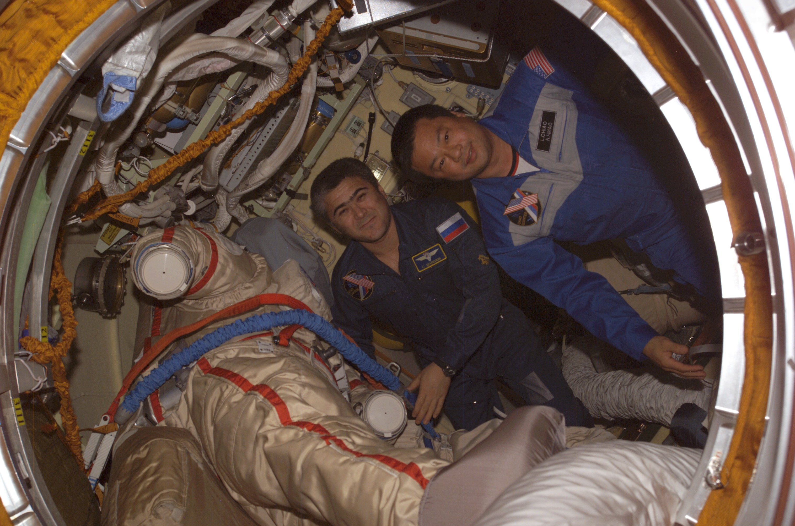 ISS Expedition Crew in PIRS docking compartment Astronaut Leroy Chiao (right), Expedition 10 commander and NASA ISS science officer, and cosmonaut Salizhan S. Sharipov, flight engineer representing Russia's Federal Space Agency, work with their Russian Orlan spacesuits in the Pirs Docking Compartment of the International Space Station (ISS).